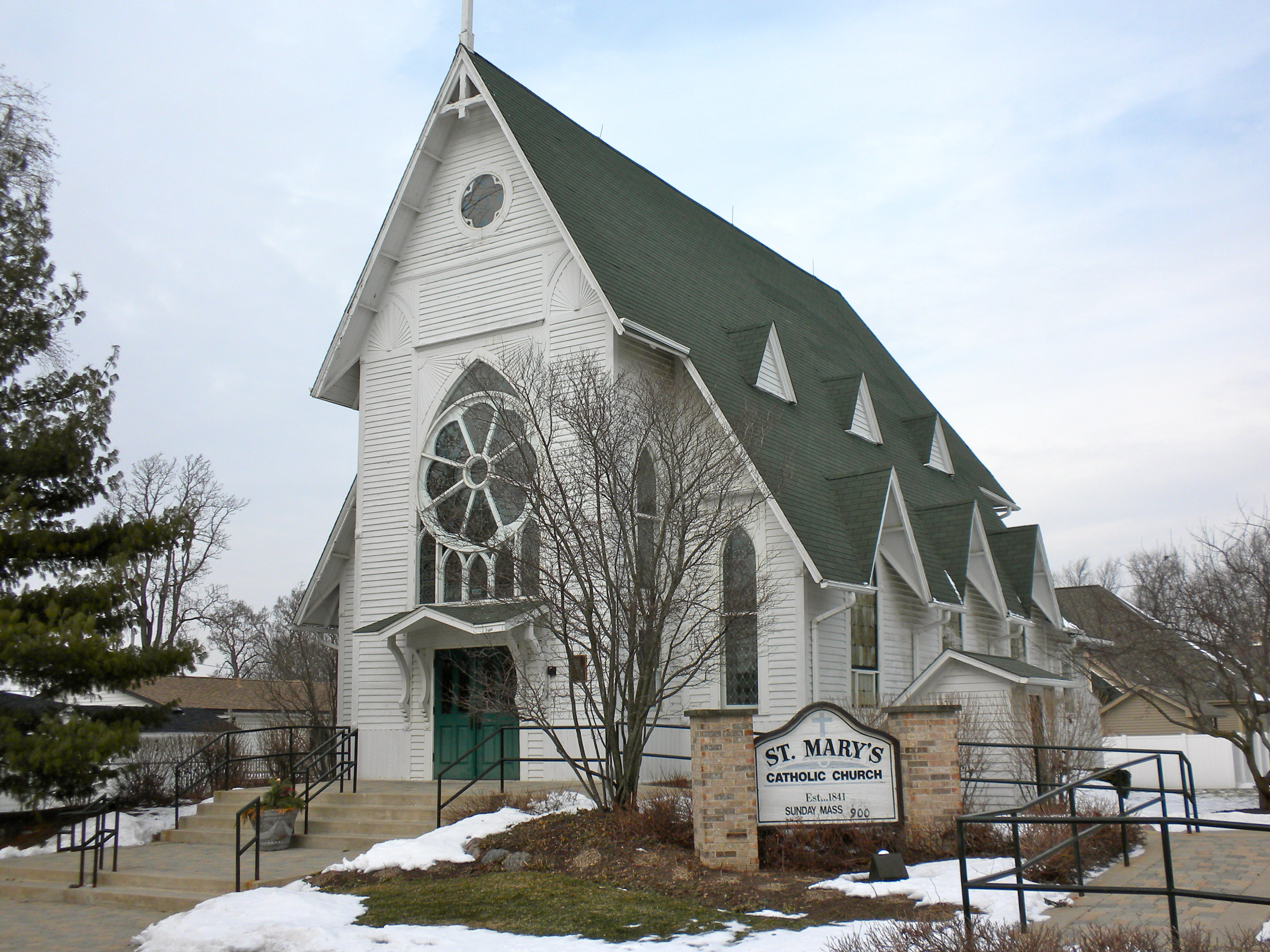 St. Mary's Catholic Church in the small town of Gilberts, Illinois. On the NRHP since August 18, 1992 10 Matteson St. in Kane, County west of Dundee